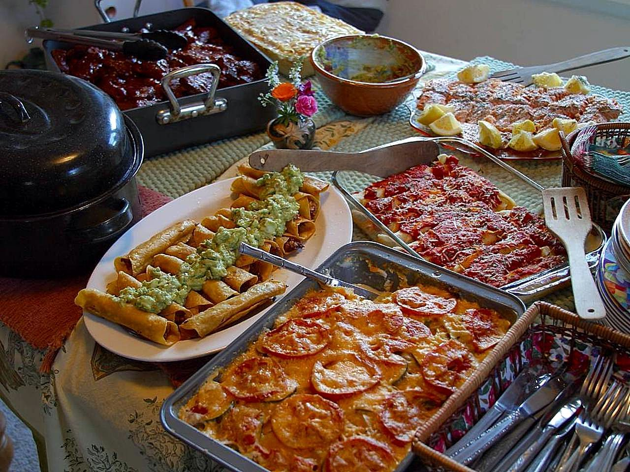 Image title: Food for diner Image from Public domain images website